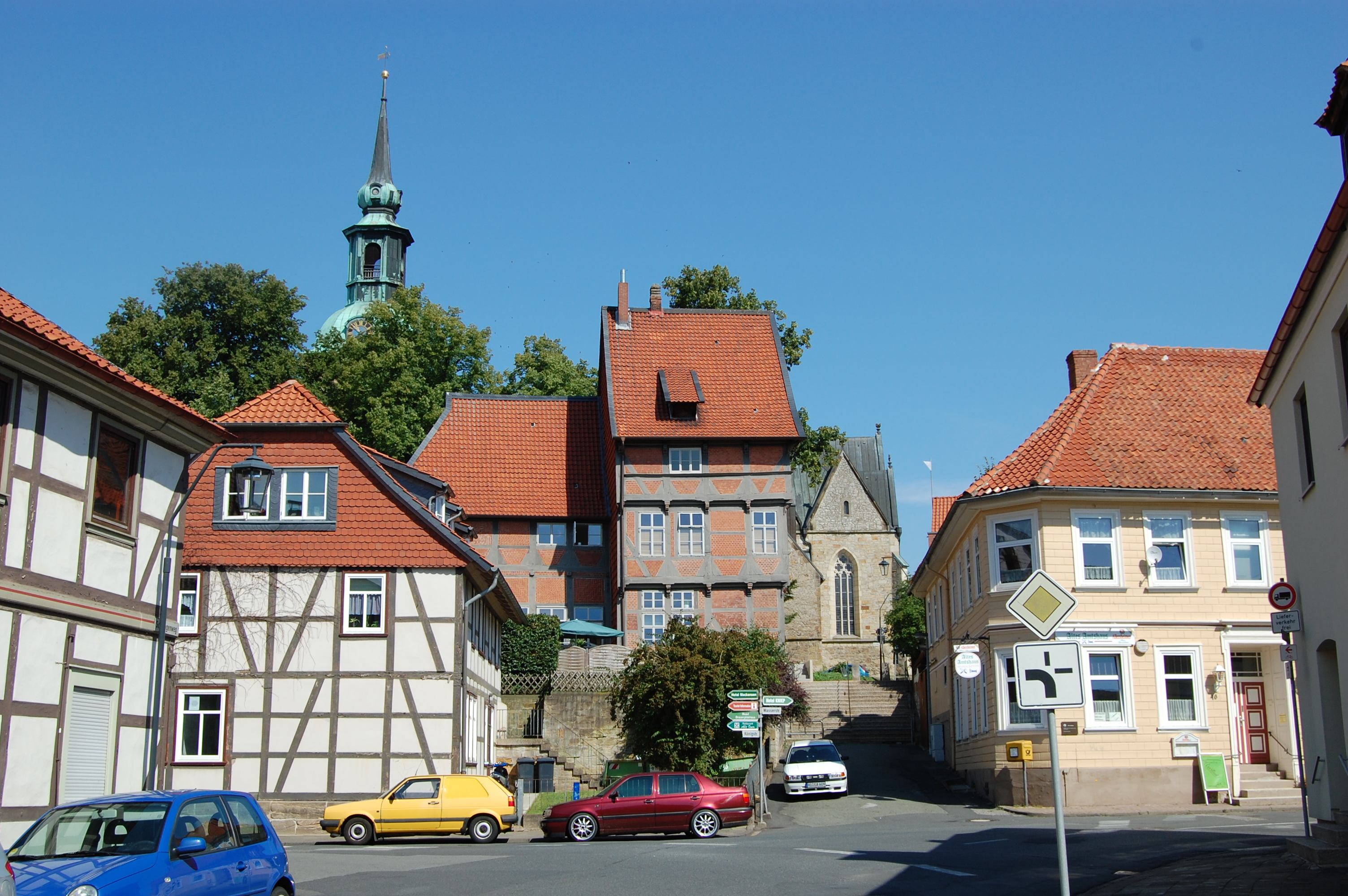 In the very center a churchly building (german: Superintendentur) in Bockenem with the "St. Pankratius" church in the background